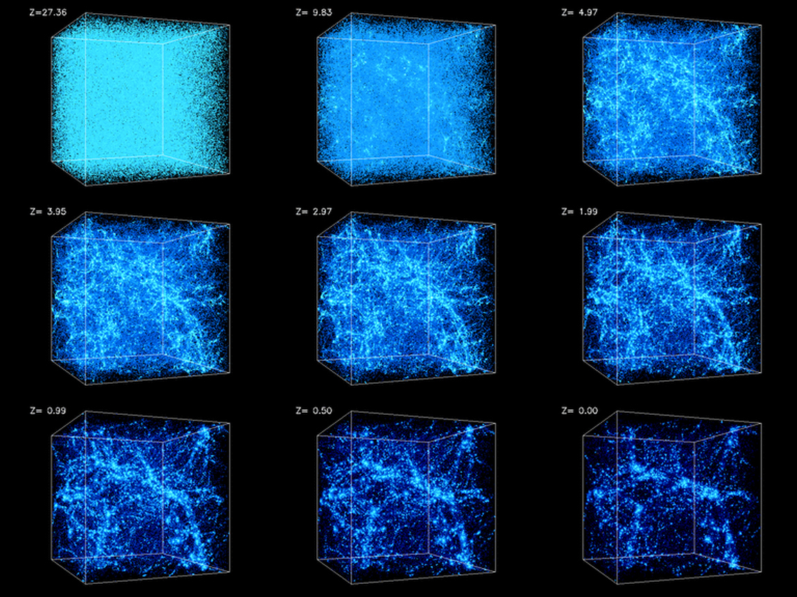 The movie stills pictured above illustrate the formation of clusters and large-scale filaments in the Cold Dark Matter model with dark energy. The frames show the evolution of structures in a 43 million parsecs (or 140 million light years) box from redshift of 30 to the present epoch (upper left z=30 to lower right z=0). The simulation was performed at the National Center for Supercomputer Applications by Andrey Kravtsov (the University of Chicago) and Anatoly Klypin (New Mexico State University).